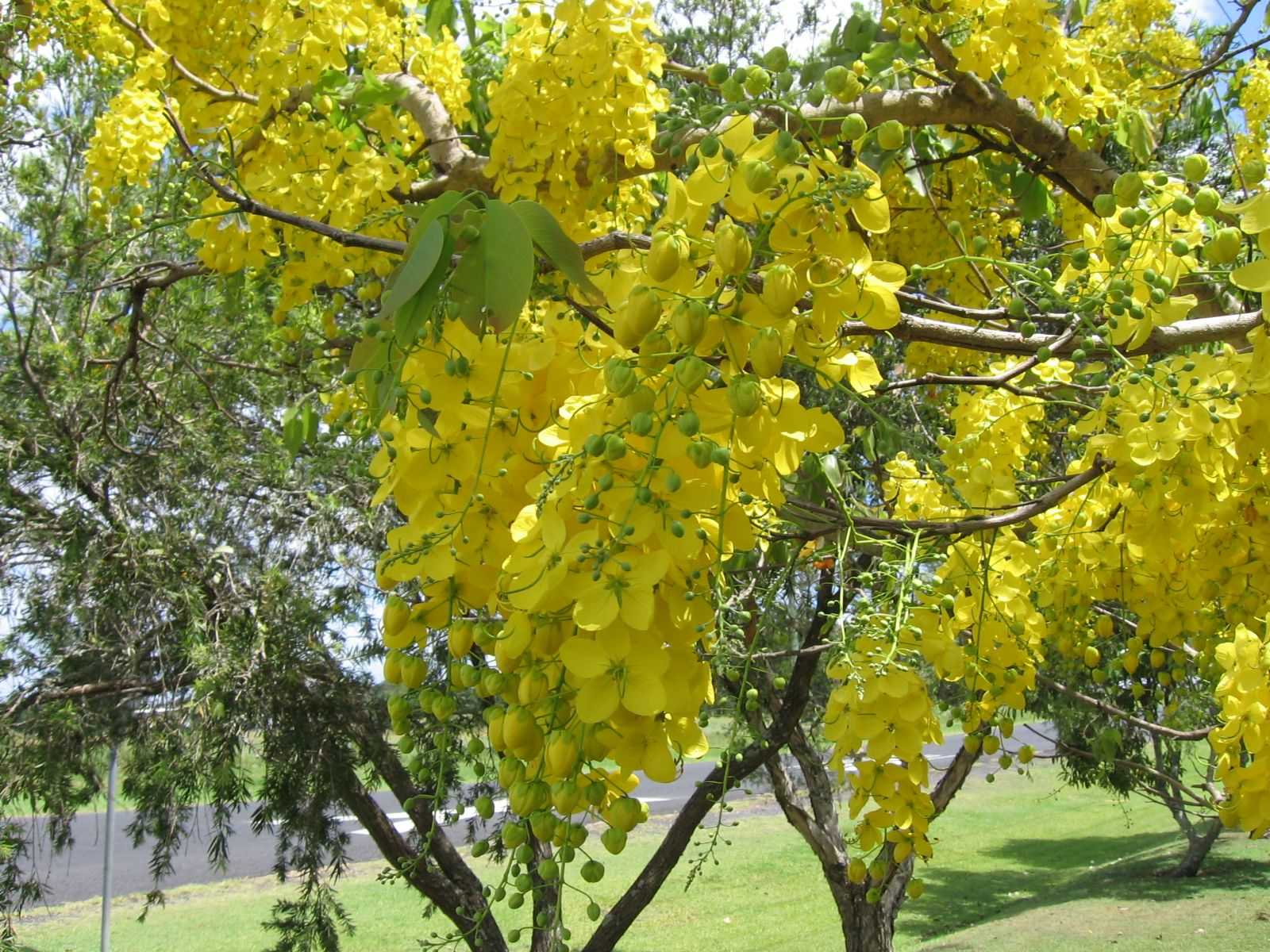 Photograph of the flowers of Cassia fistula, taken by myself Larger version 1600x1200 463KB